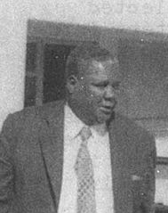 Joshua Nkomo, leader of the Zimbabwe African People's Union, pictured in 1975